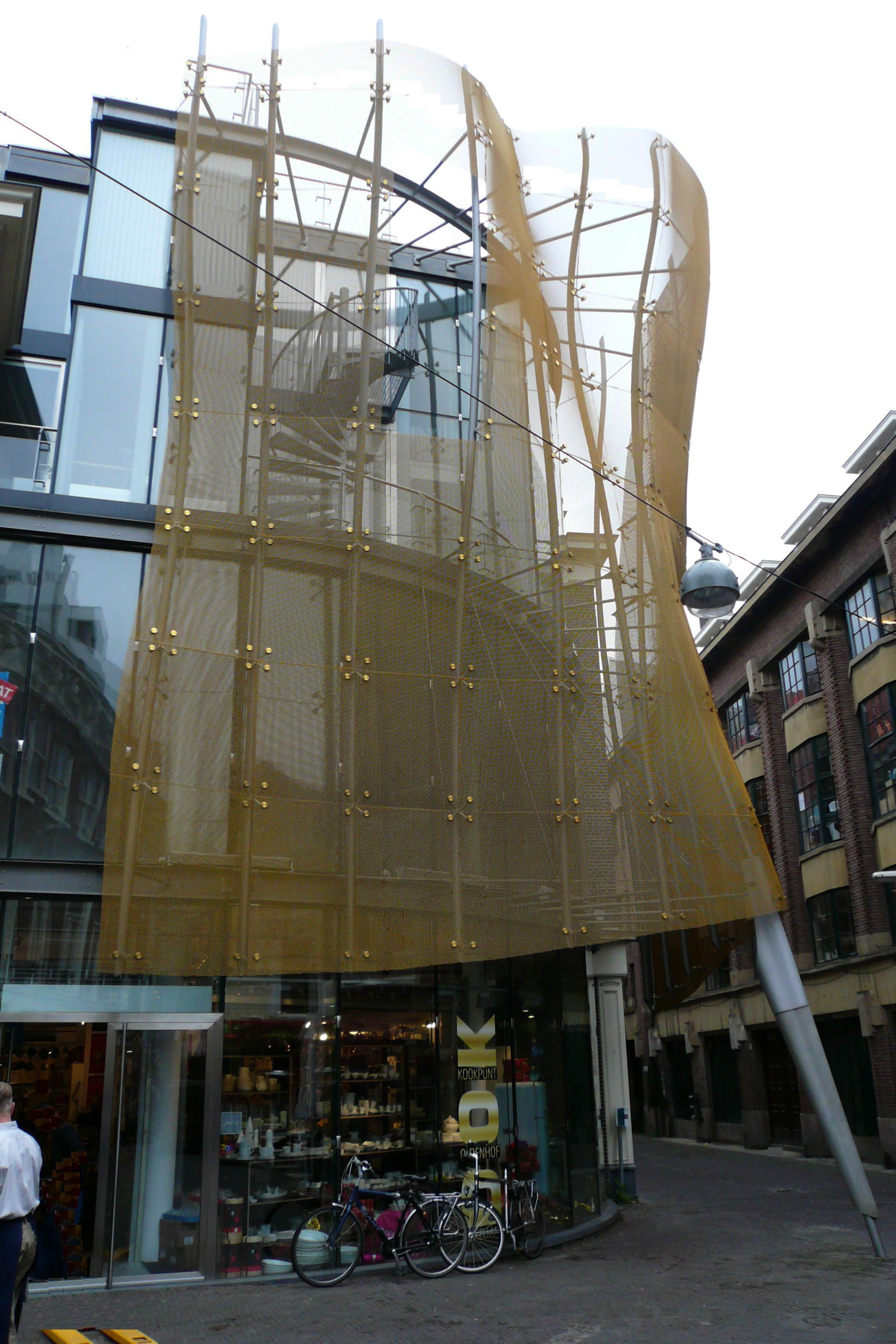 The Hague at the Kettingstraat, "De Baljurk" (The Gown). Build by Archipel Ontwerpers in 2005.